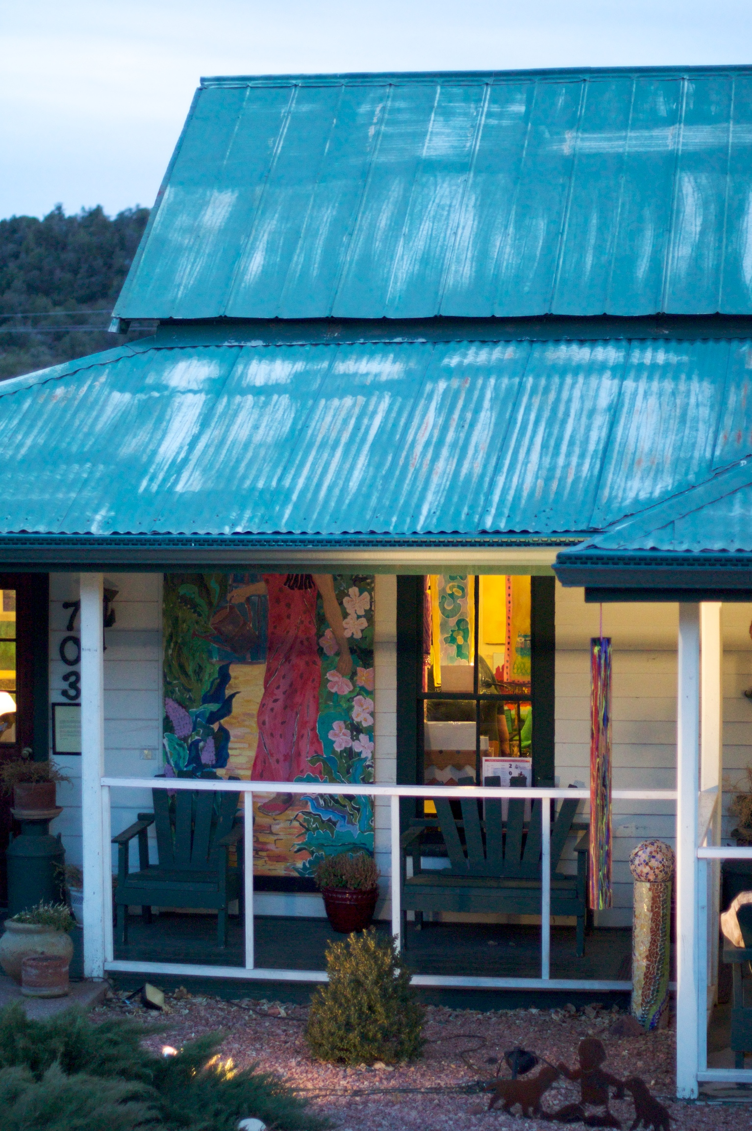 Art Gallery in Payson, AZ